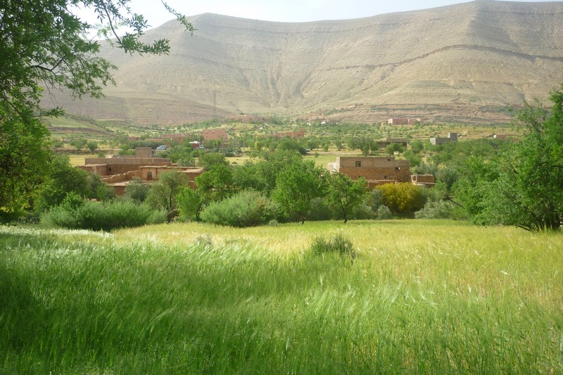 Le code postal de la ville de Plan de CHICHAOUA, Quartier de ASSERRATOU et 41072 , Carte ville Maroc. This is an image of food from Morocco